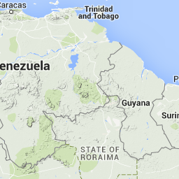 macushi area